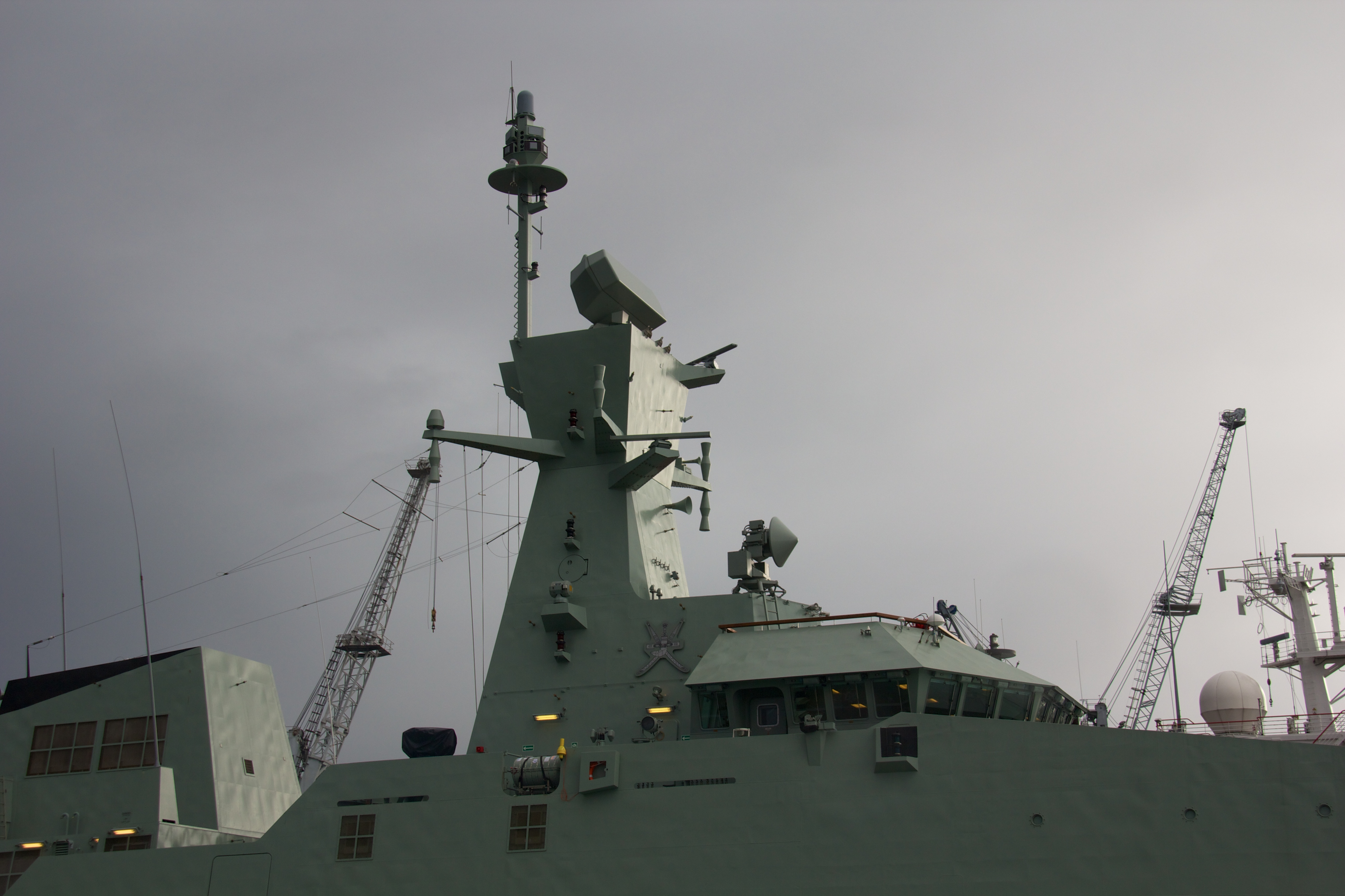 Ships in Portsmouth Harbour on 20th October 2013.